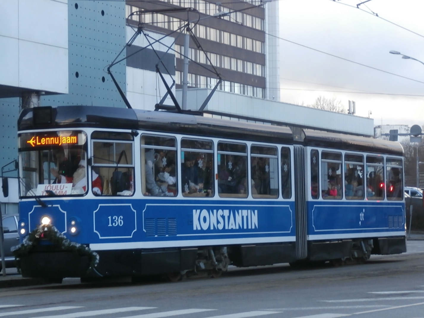 Christmas Tram 136 Konstantin in Tallinn 24 December 2017